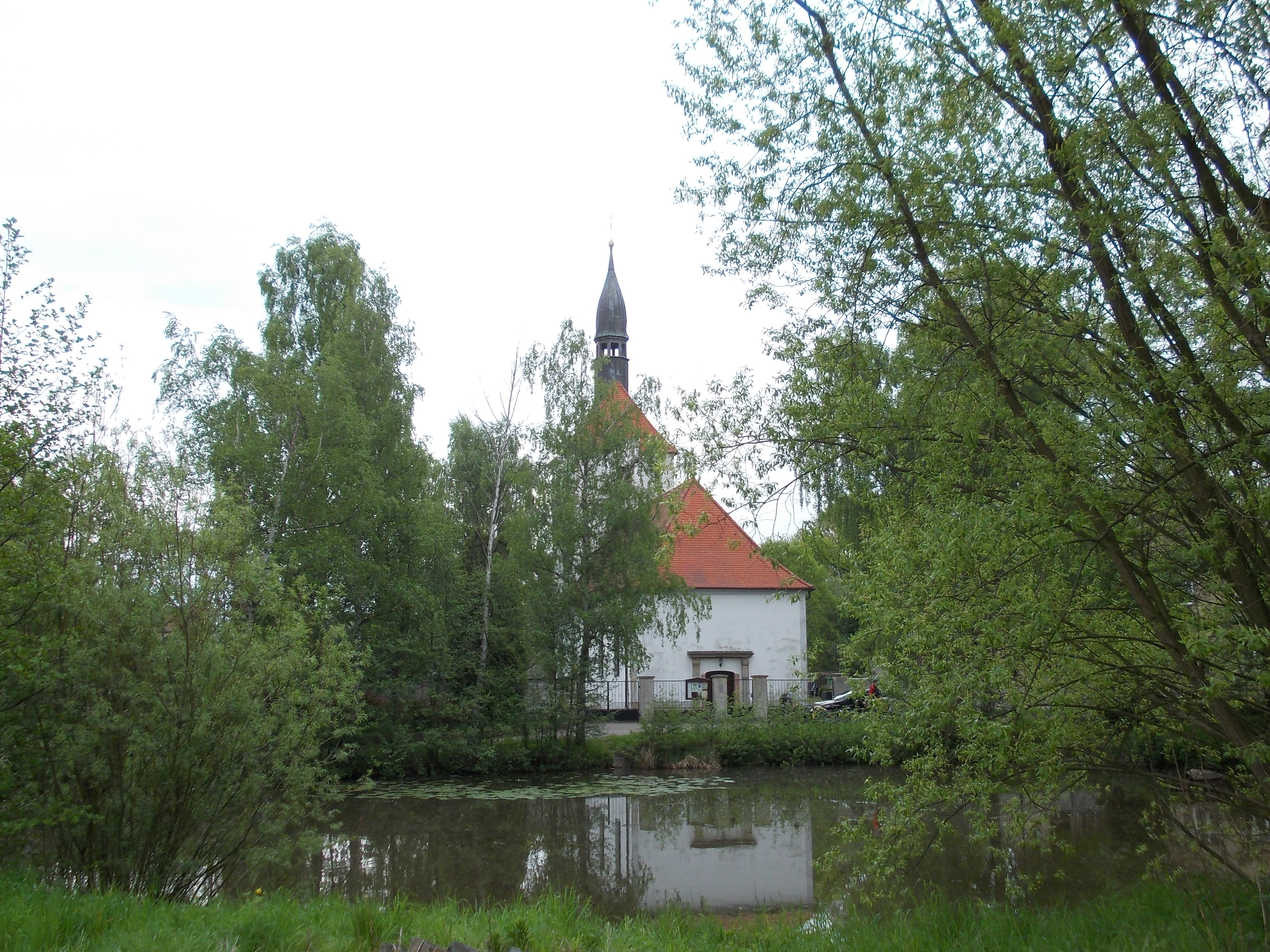 Jungenteich ("boys' pond) at the church in Köhra (Belgershain, Leipzig district, Saxony)